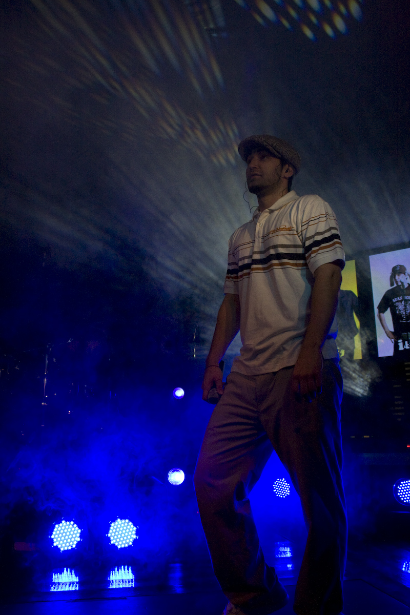 Smiley (Andrei Tiberiu Maria) in Bucharest, 2008.